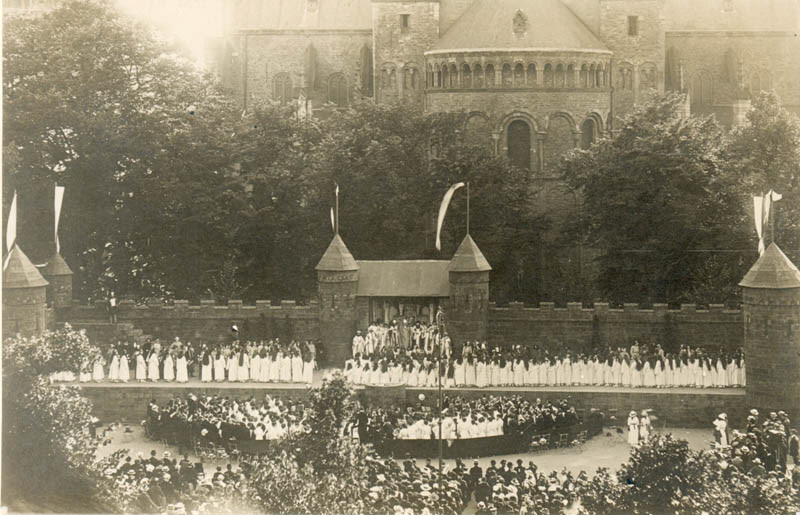 View of Vrijthof in Maastricht, Netherlands, during an open-air play on the life of Saint Servatius (Sint-Servaasspel), as part of the 1916 Pilgrimage of the Relics (Heiligdomsvaart). This 10 or 15-day religious and cultural festival is celebrated in Maastricht every seven years and dates back to the Middle Ages. The play was written by Chrétien Mertz with music by Philip Loots, and directed by Alfons Olterdissen. Photo by J. Weijnen, Municipal Archives Maastricht (GAM 31427), part of RHCL collections.